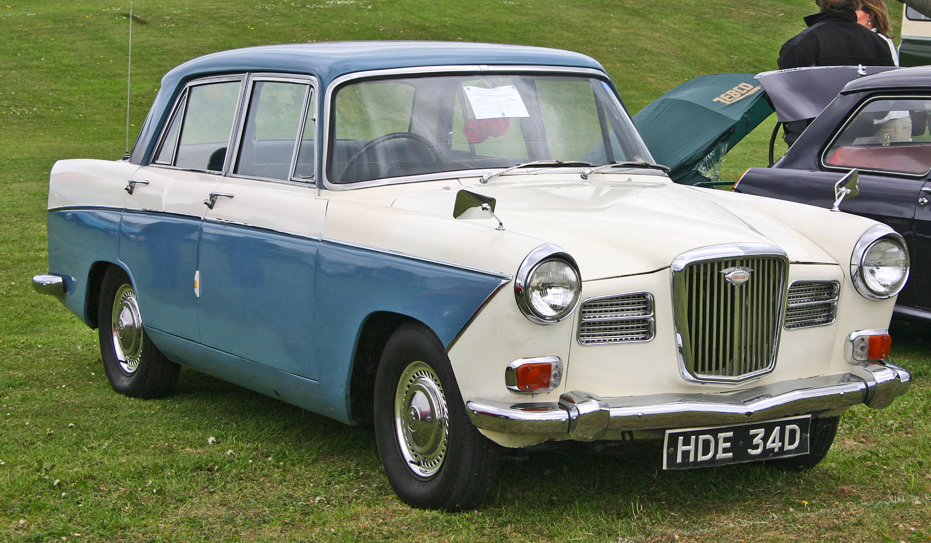 Wolseley 16/60